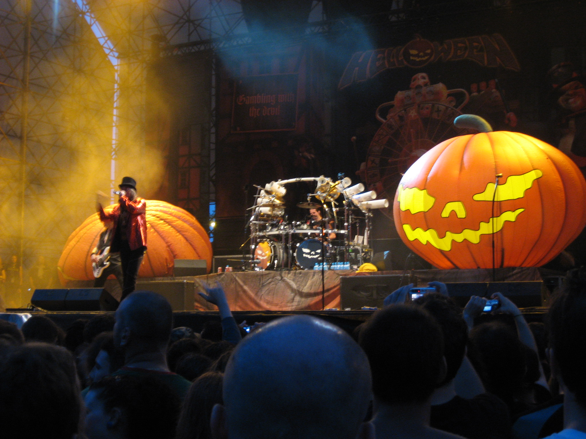 Helloween at Rockin' field festival at Milan (26 July 2008)